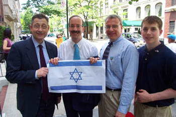 Congressman Eliot Engel is joined by New York Assembly Speaker Sheldon Silver, Bronx Assemblyman Jeffrey Dinowitz and Jonathan Engel at the Israel Day Parade in New York.